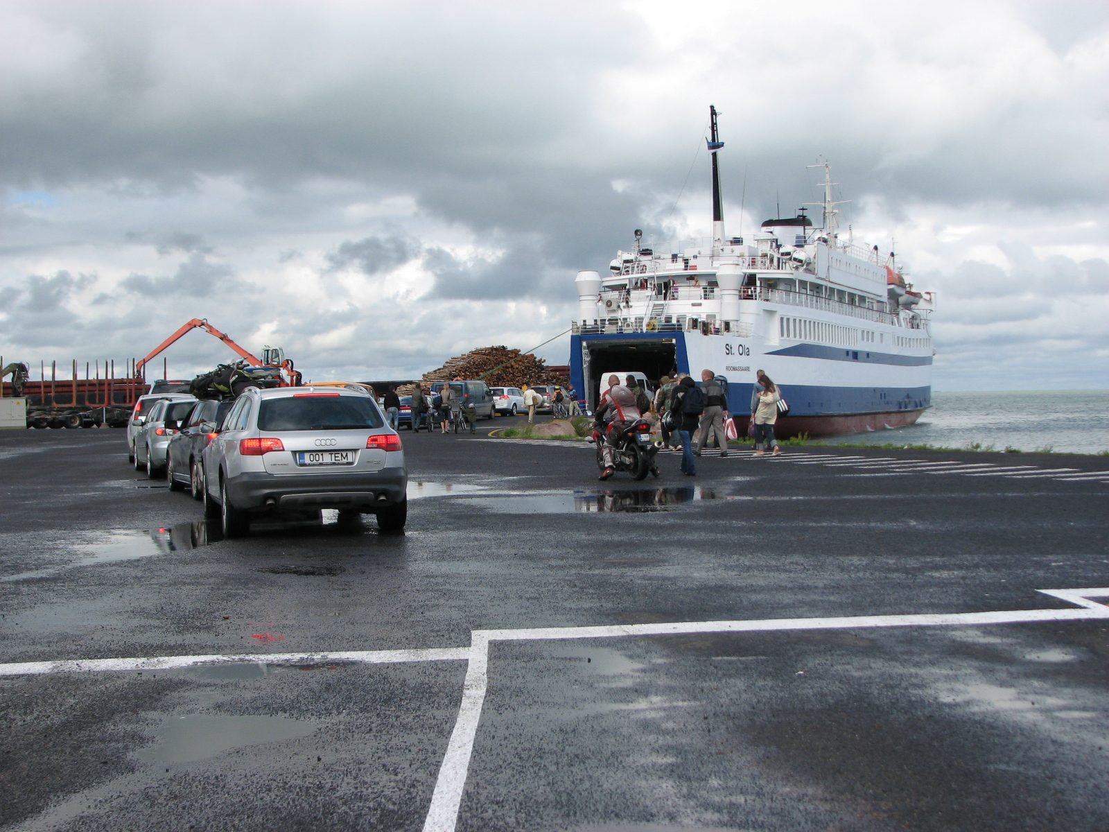 Port of Heltermaa, Hiiumaa, Estonia, with St. Ola IMO Number: 7109609 MMSI Number: 276509000 Callsign: ESUD Length: 86 m Beam: 16 m